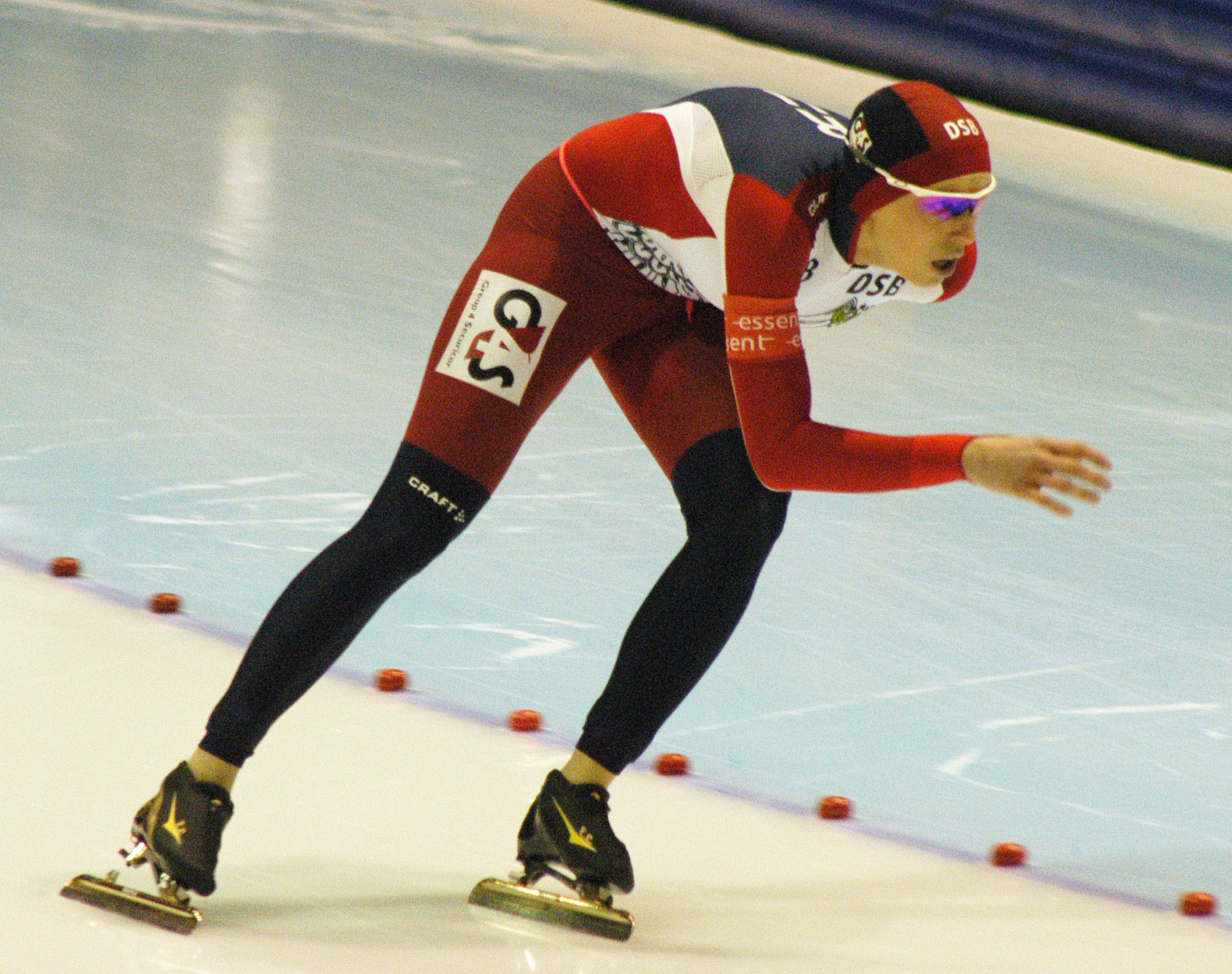 Yekatarina Lobysheva (RUS) at a world cup speedskating in Heerenveen, the Netherlands.